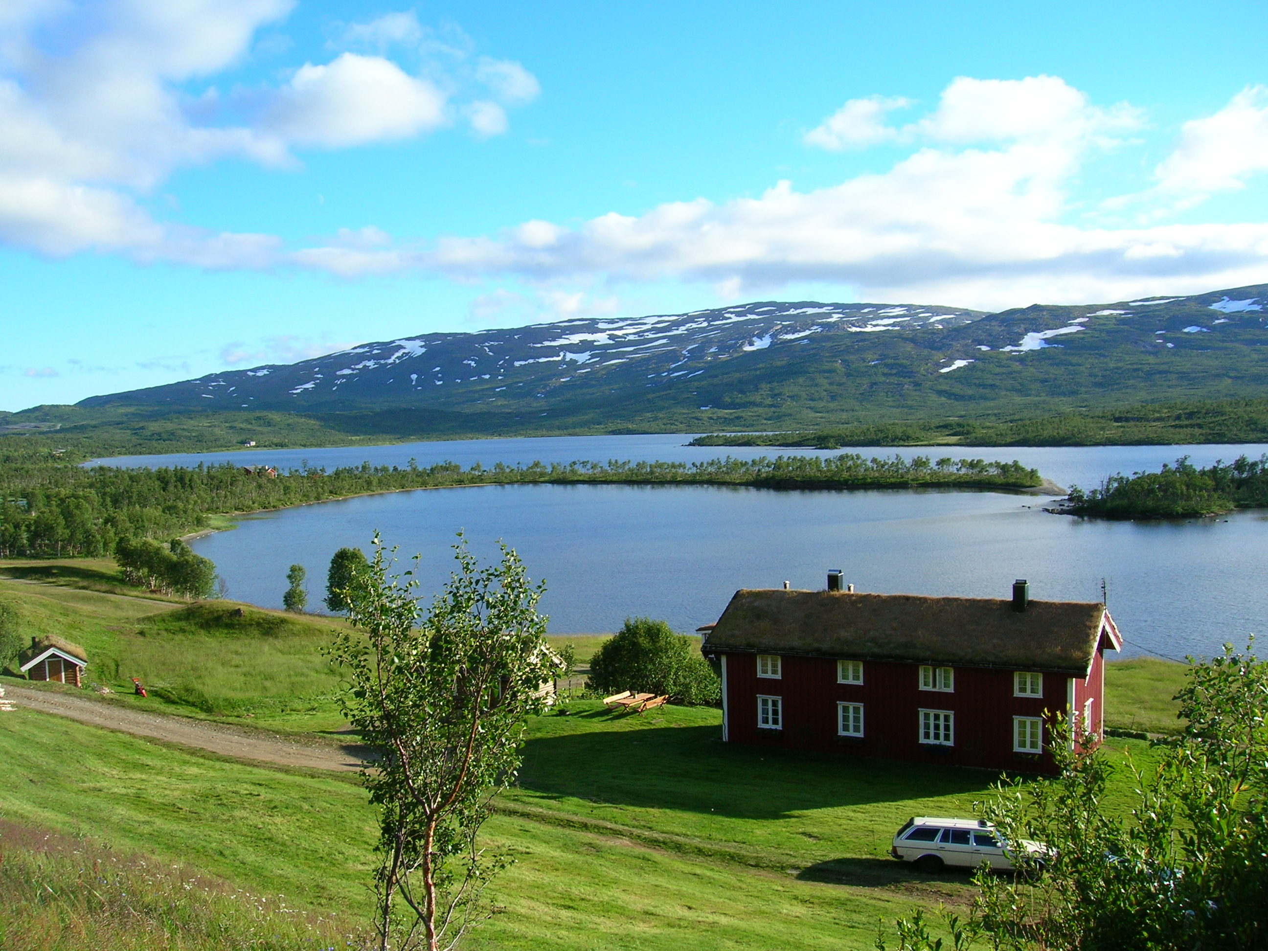 The farm Tverrvatnet. Rana municipality, county of Nordland, Norway. Photo 30 September 2005 with a Nikon Coolpix 5600 5,1 Megapixel camera.